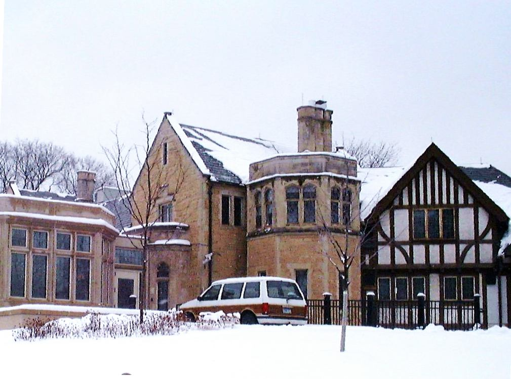 Bakken Museum, Minneapolis, Minnesota. Image cropped, contrast added.